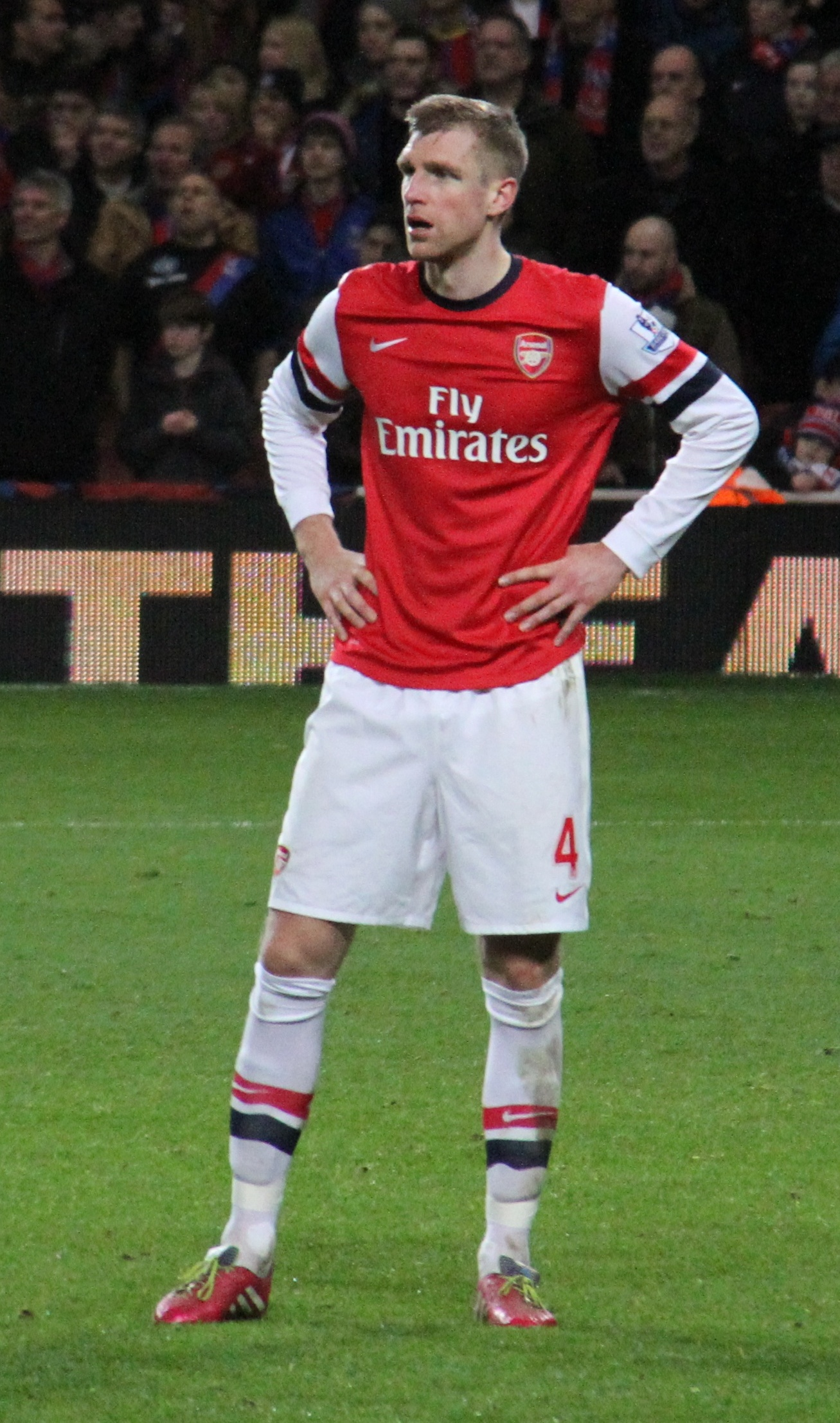 Per Mertesacker playing for Arsenal against Crystal Palace in February 2014.